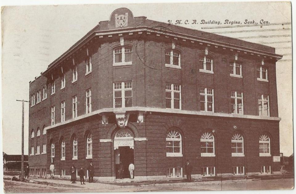 First Regina YMCA on 12th Avenue across from Victoria Park and next to Knox Presbyterian Church in the early 20th century, replaced in the 1950s.